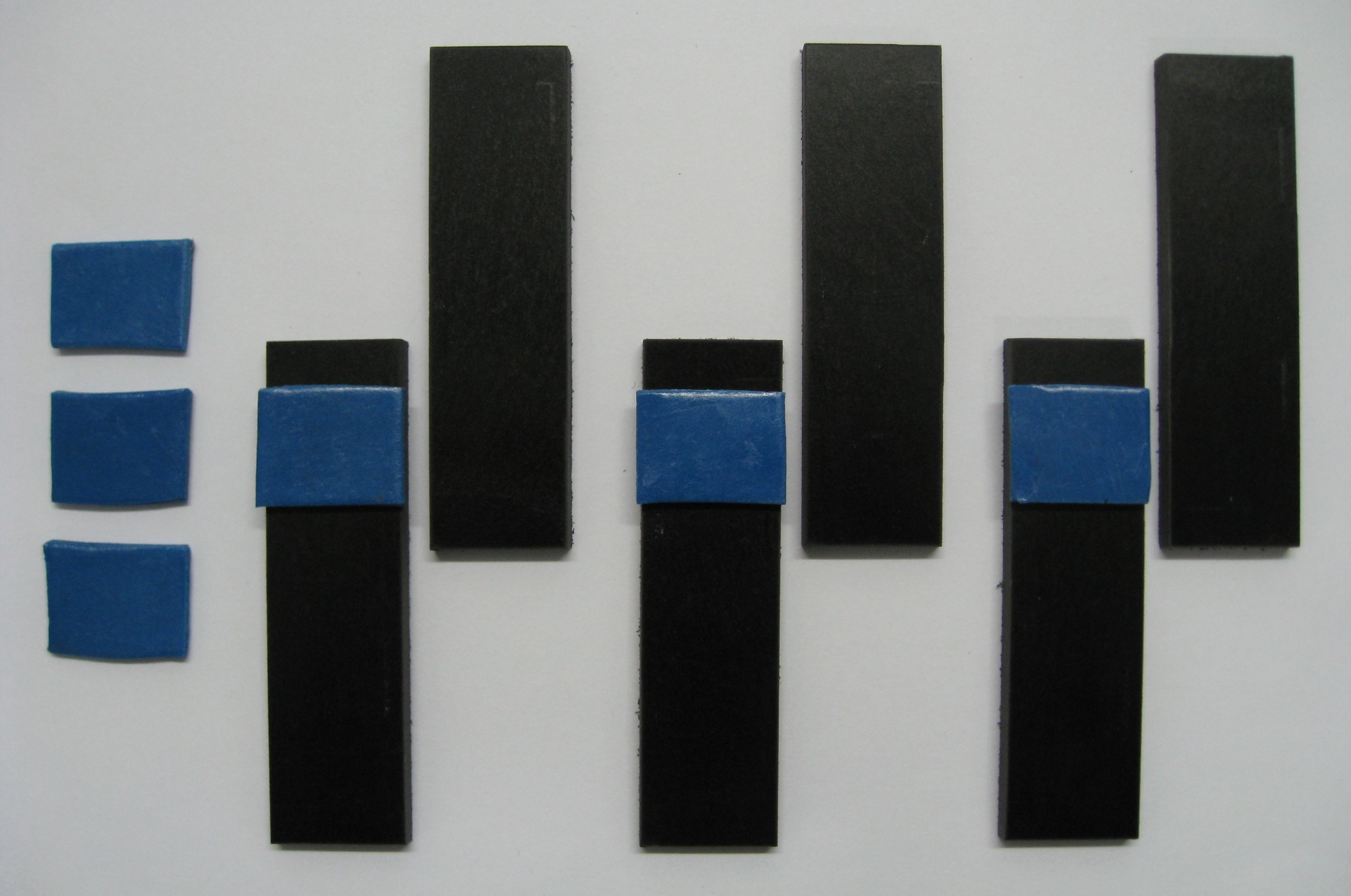 Sterigma (made of composite: polyamide 6-6 with 30 % glassfiber), dimensions 90x25 mm, black, and epoxy adhesive, thickness 2 mm, blue, to prepare 3 tensile test specimens.